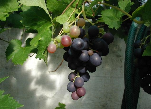 From Billede:Vitis-vinifera.JPG. Author and credit: Sten.